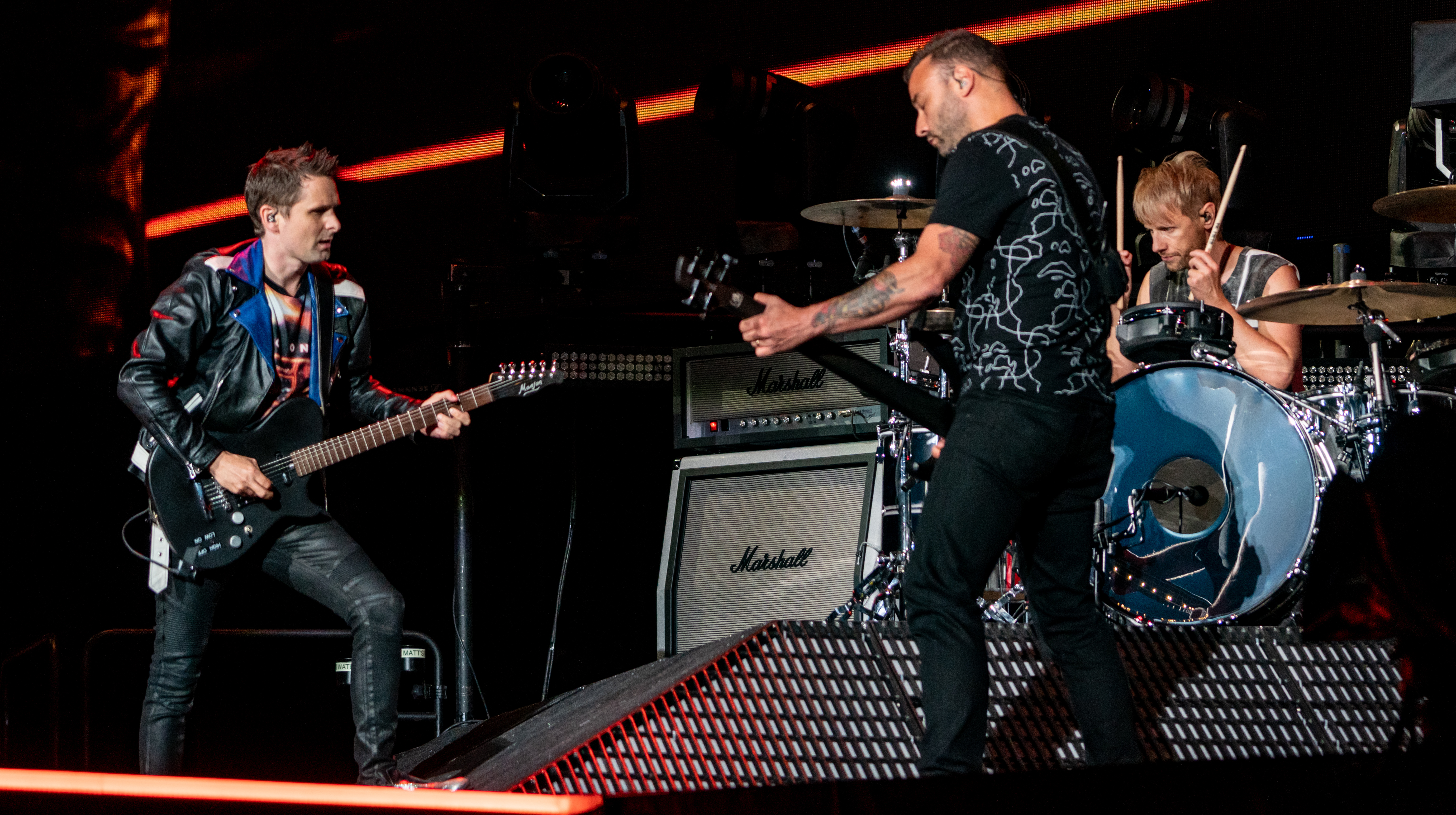 Muse play at Ashton Gate stadium, Bristol, UK.